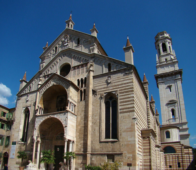 Verona Cathedral, Veneto, Italy.